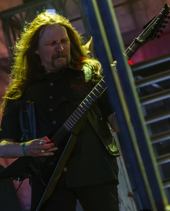 Mike Wead, guitarrist of King Diamond, performing live at Rock Hard Festival (2013).